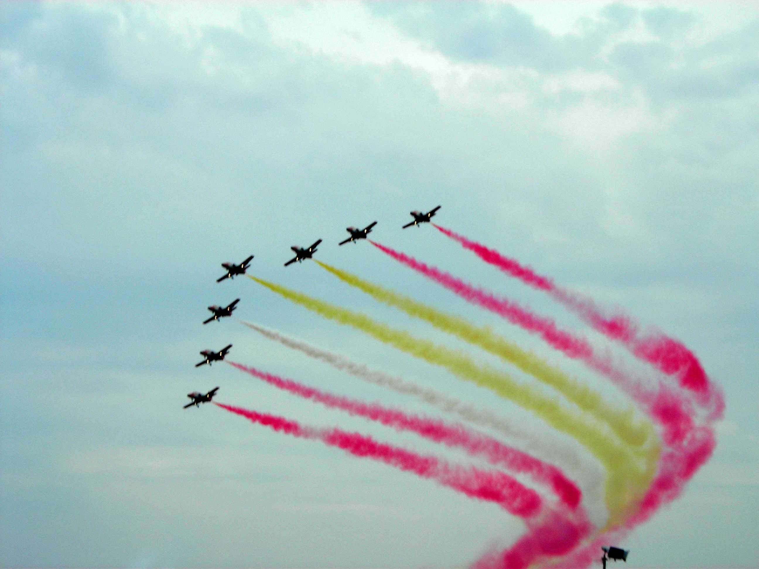 Picture taken during "Giornata Azzurra" 2007 (Italian Air Force airshow) at Pratica di Mare AFB, Italy. Spanish "Patrulla Águila" at the ending part of their show